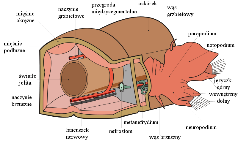 Anatomy of Polychaeta